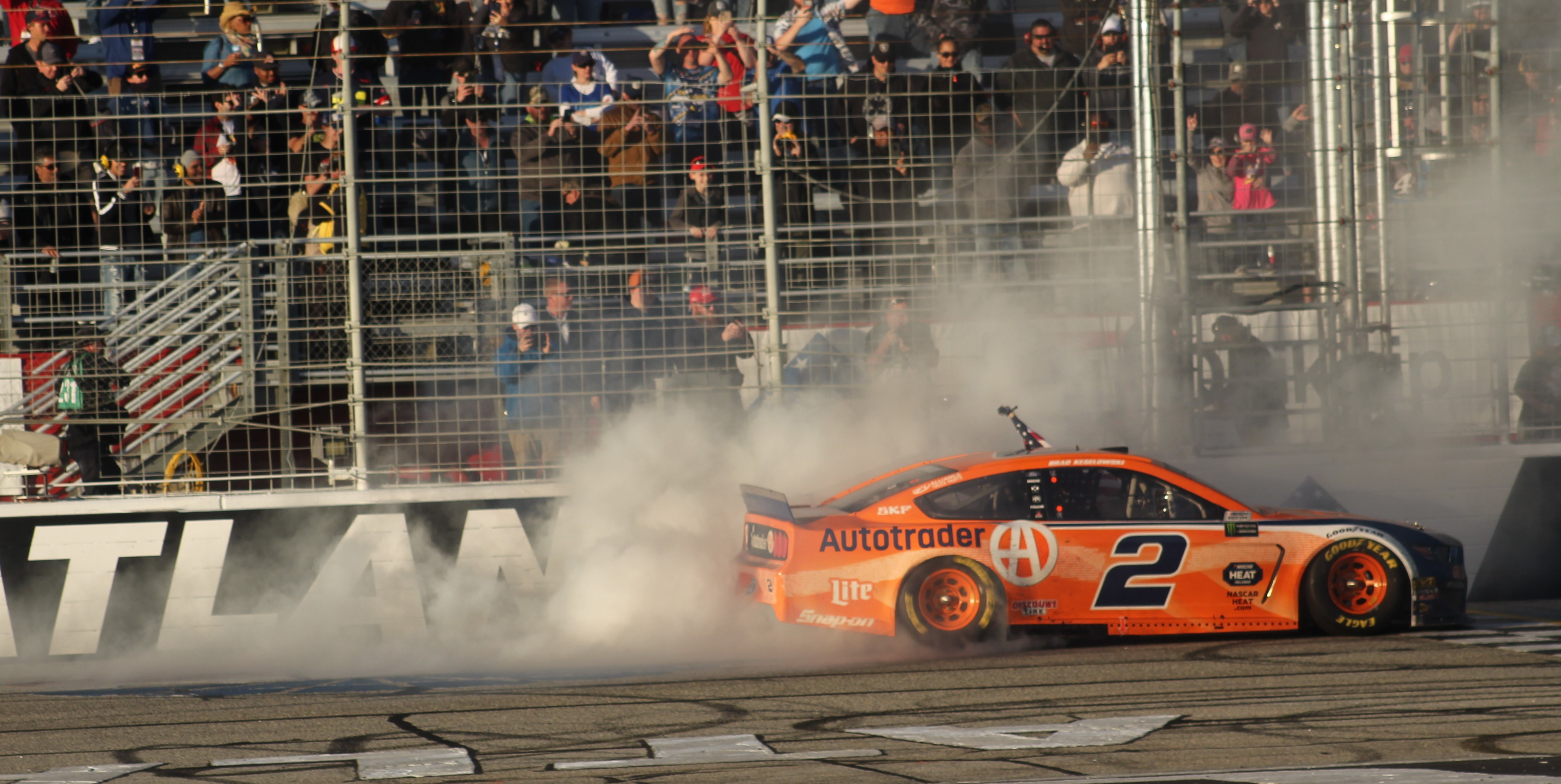 2019 Folds of Honor QuikTrip 500